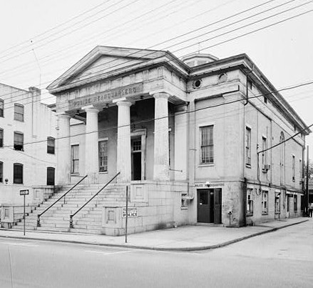 Exchange Building (Petersburg, Virginia).(cropped)